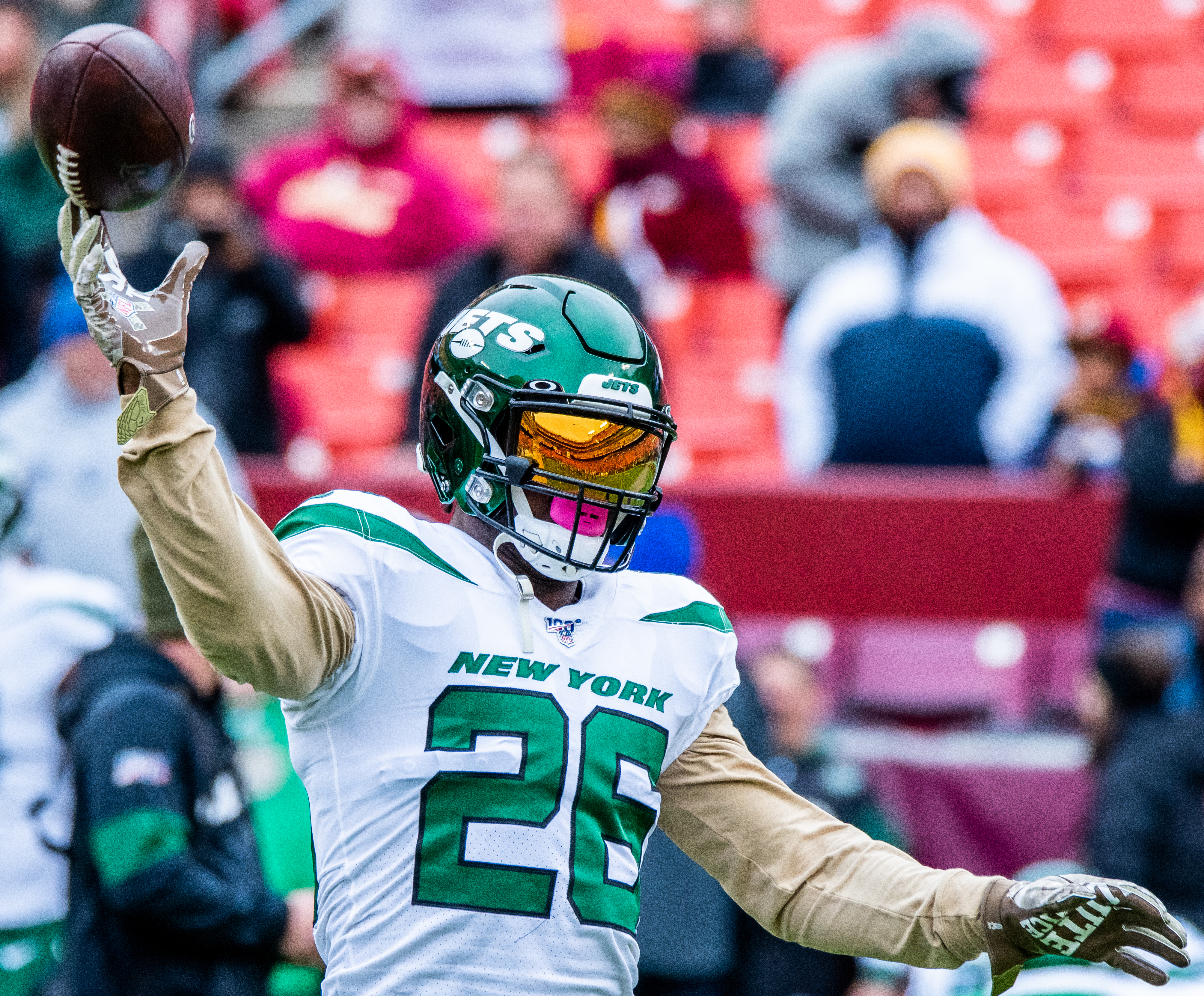 In 2019